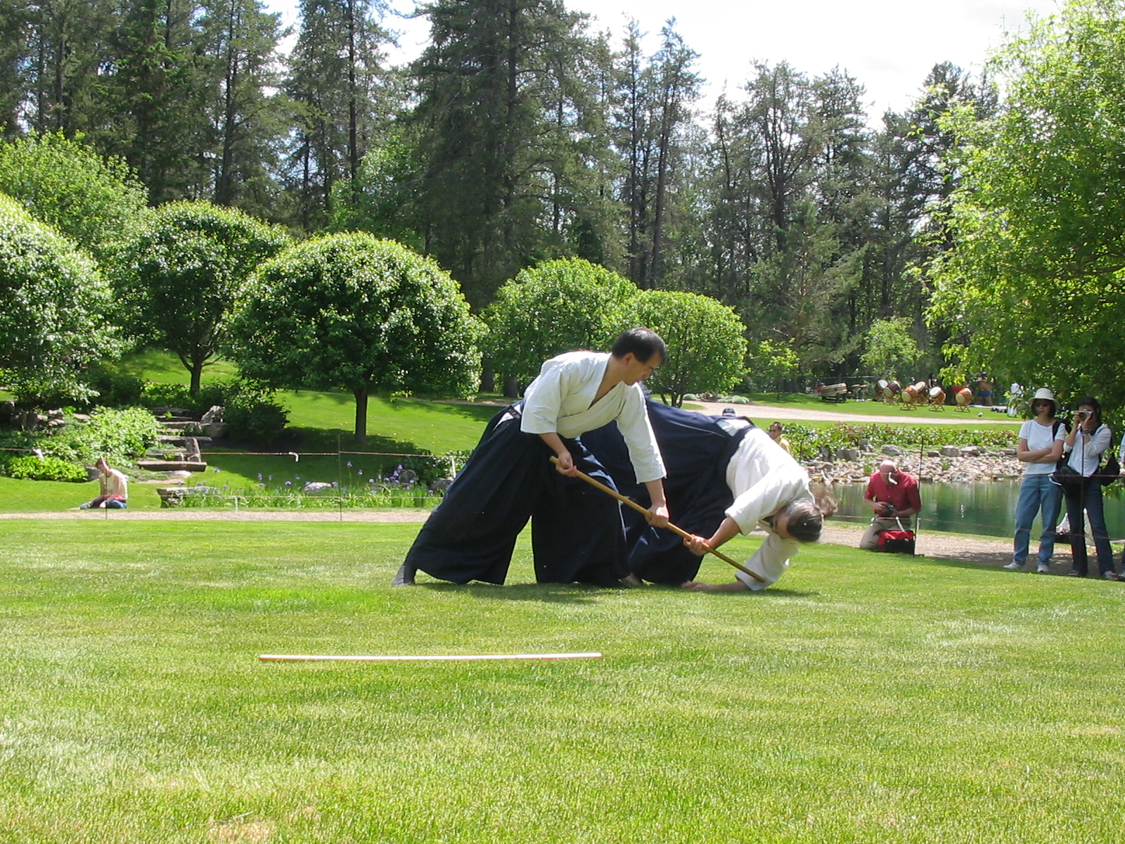 Aikido at the Japanese Garden in Devonian Botanical Garden.Aikido at the Japanese Garden